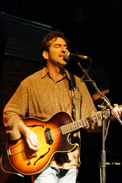 Craig Marshall performing a concert in August 2013. Other information Photographed on 8-17-13.